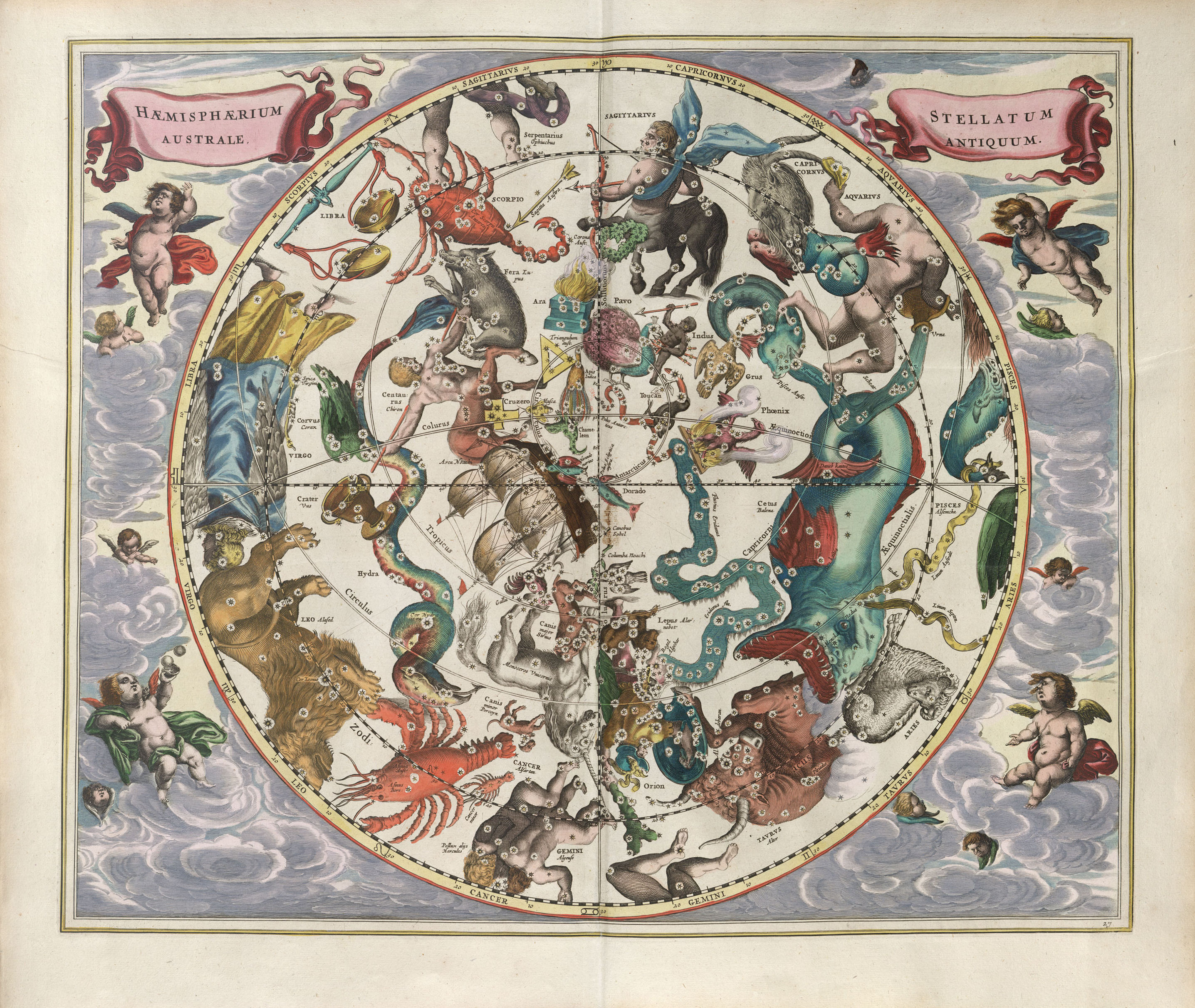 Andreas Cellarius: Harmonia macrocosmica seu atlas universalis et novus, totius universi creati cosmographiam generalem, et novam exhibens. Plate 27. HÆMISPHÆRIUM STELLATUM AUSTRALE ANTIQUUM - The southern stellar hemisphere of antiquity.